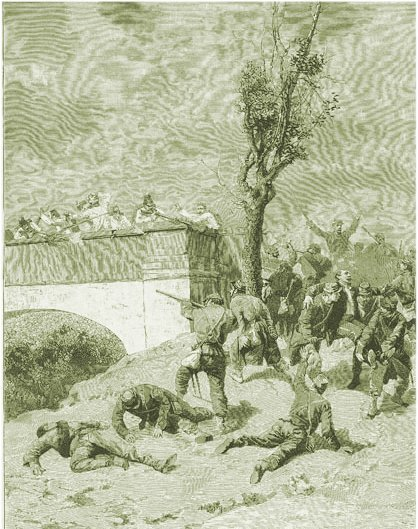 Second Italian War of Independence. Death of Captain Narciso Bronzetti at the Battle of Treponti, June 15, 1859. Lithograph of the time reduced and modified.